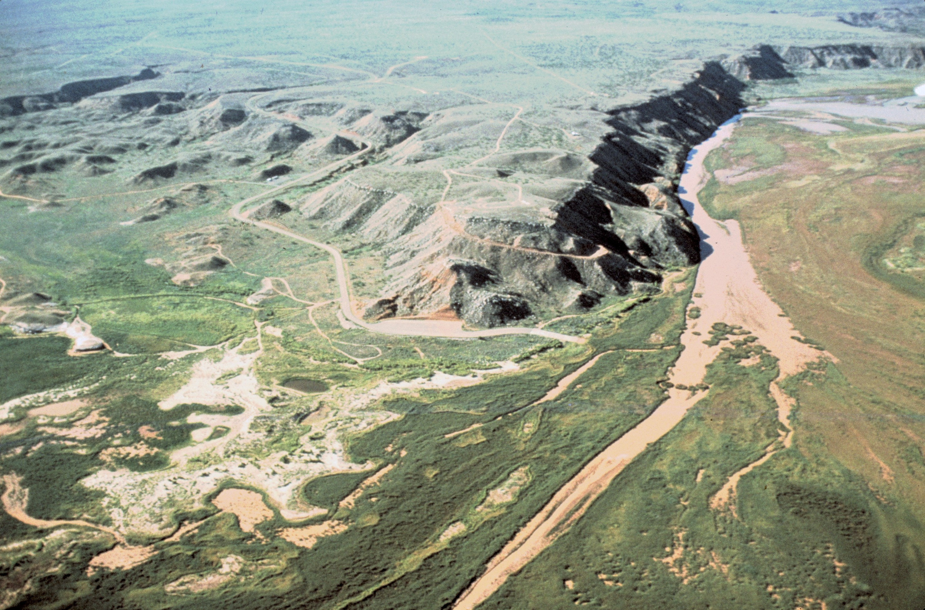 Alibates Flint Quarries National Monument, Texas, USA - Arial view of hills over Canadian River